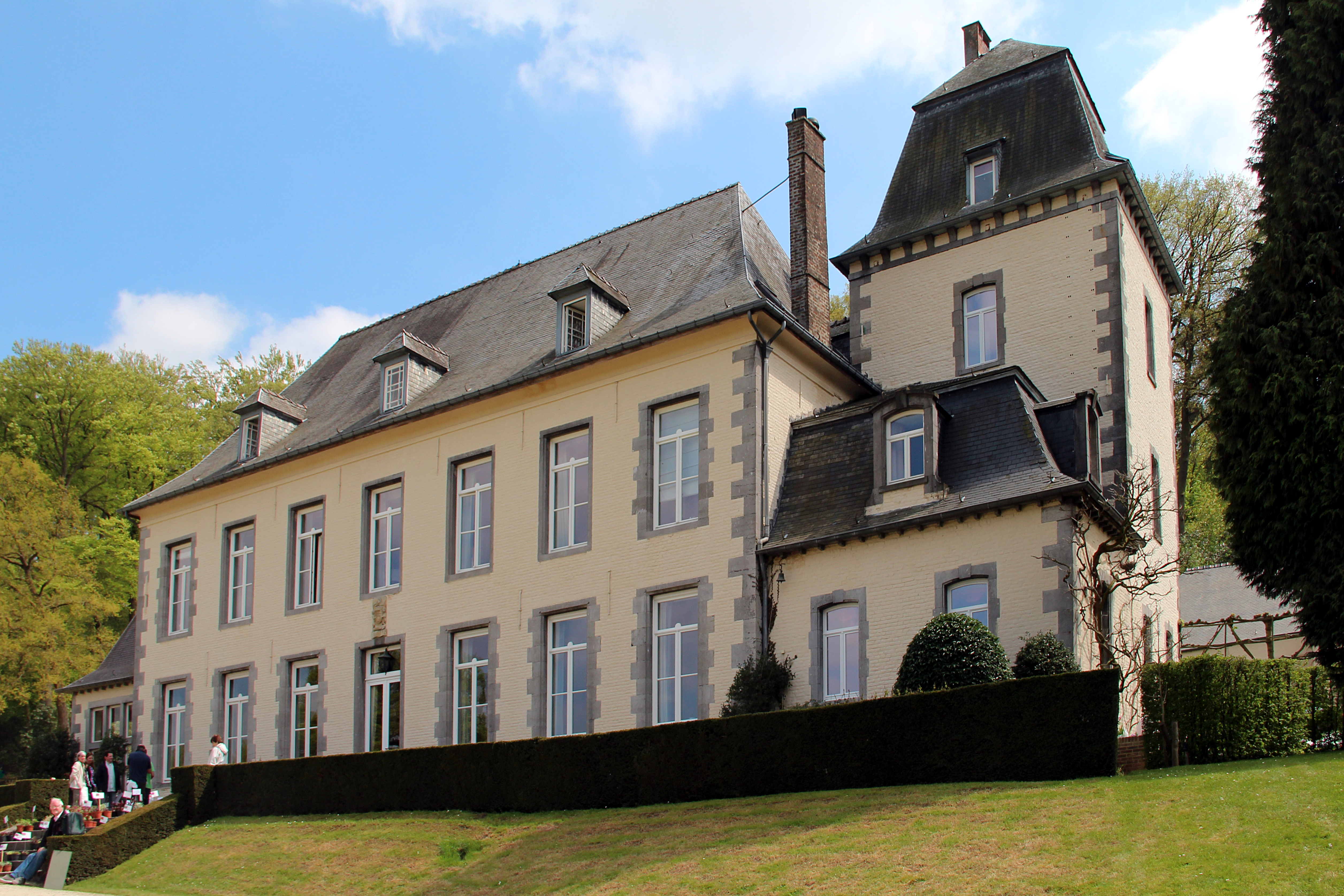 Couture-Saint-Germain (Belgium), former abbey palace of the former Aywiers Abbey (XVIIIth century).